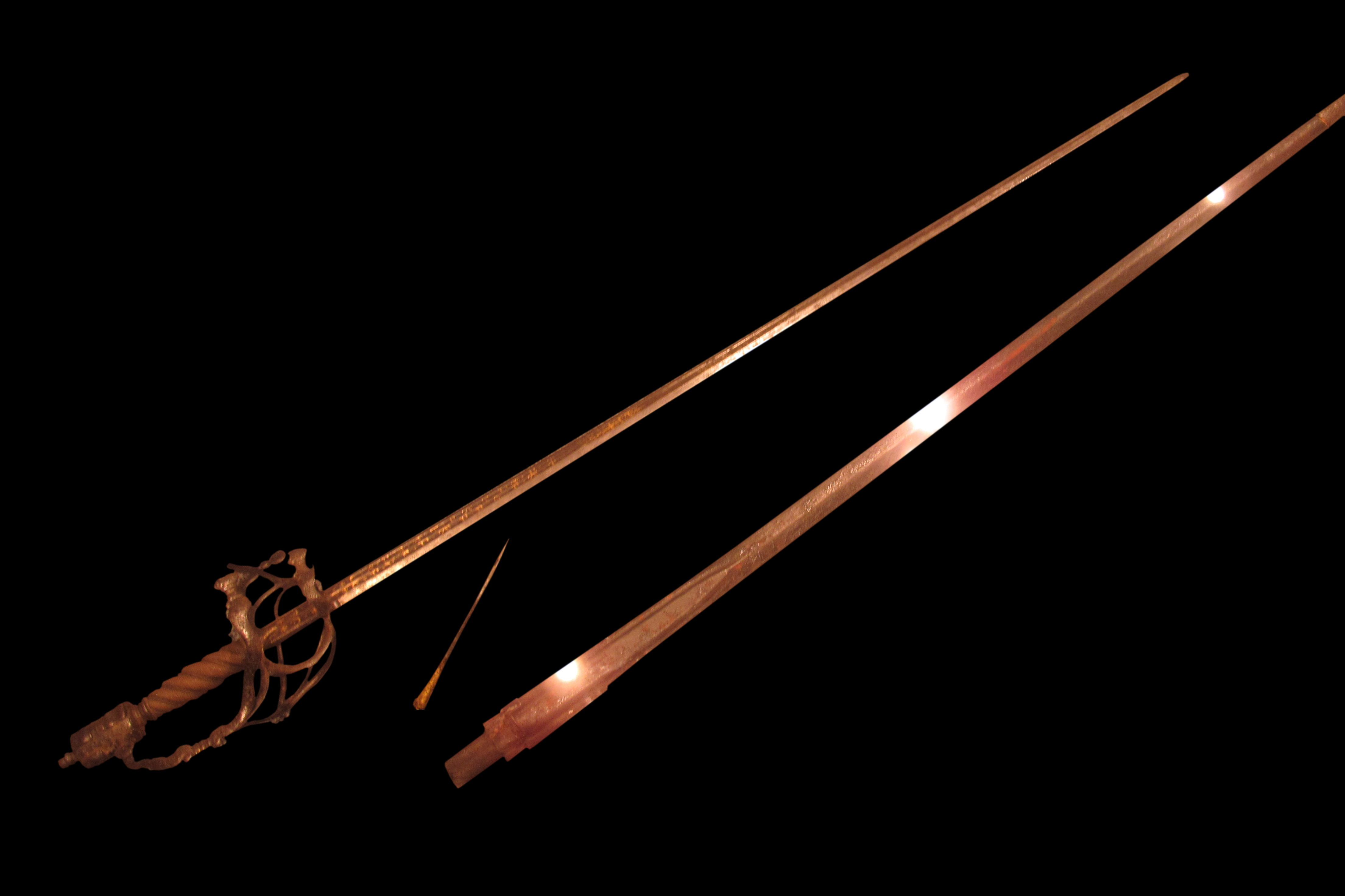 Sword of Guy Éder de Beaumanoir de La Fontenelle. Purchased in 1993, on display at the Musée départemental breton in Quimper.